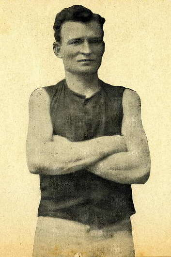 Player poster of George Johnson in the 1910 Victorian Football Follower series